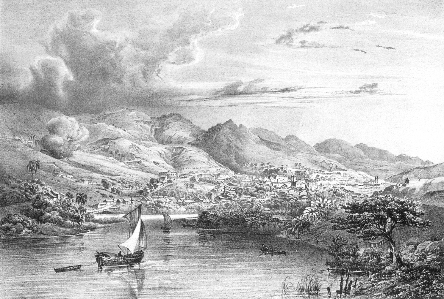 The town of Sabará in Minas Gerais province, Brazil.